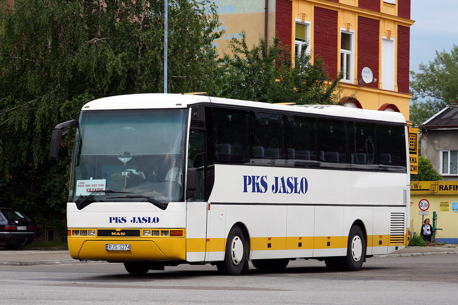 View of MAN Lion's Coach RH 353 built 1999, belongs to PKS Jasło.